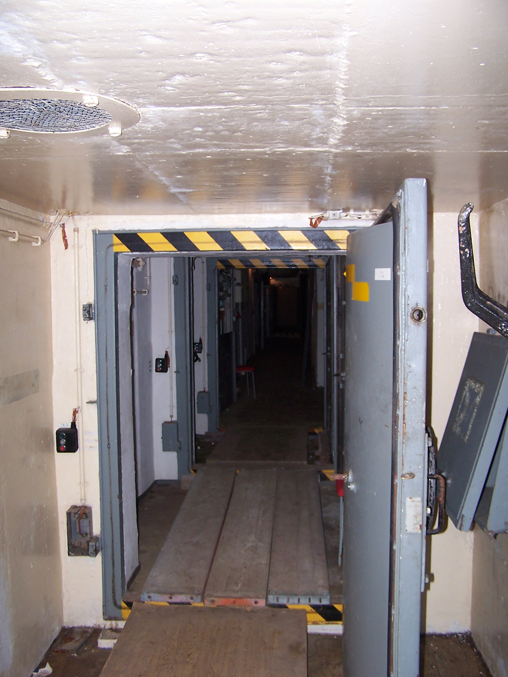 Look by the main entrance